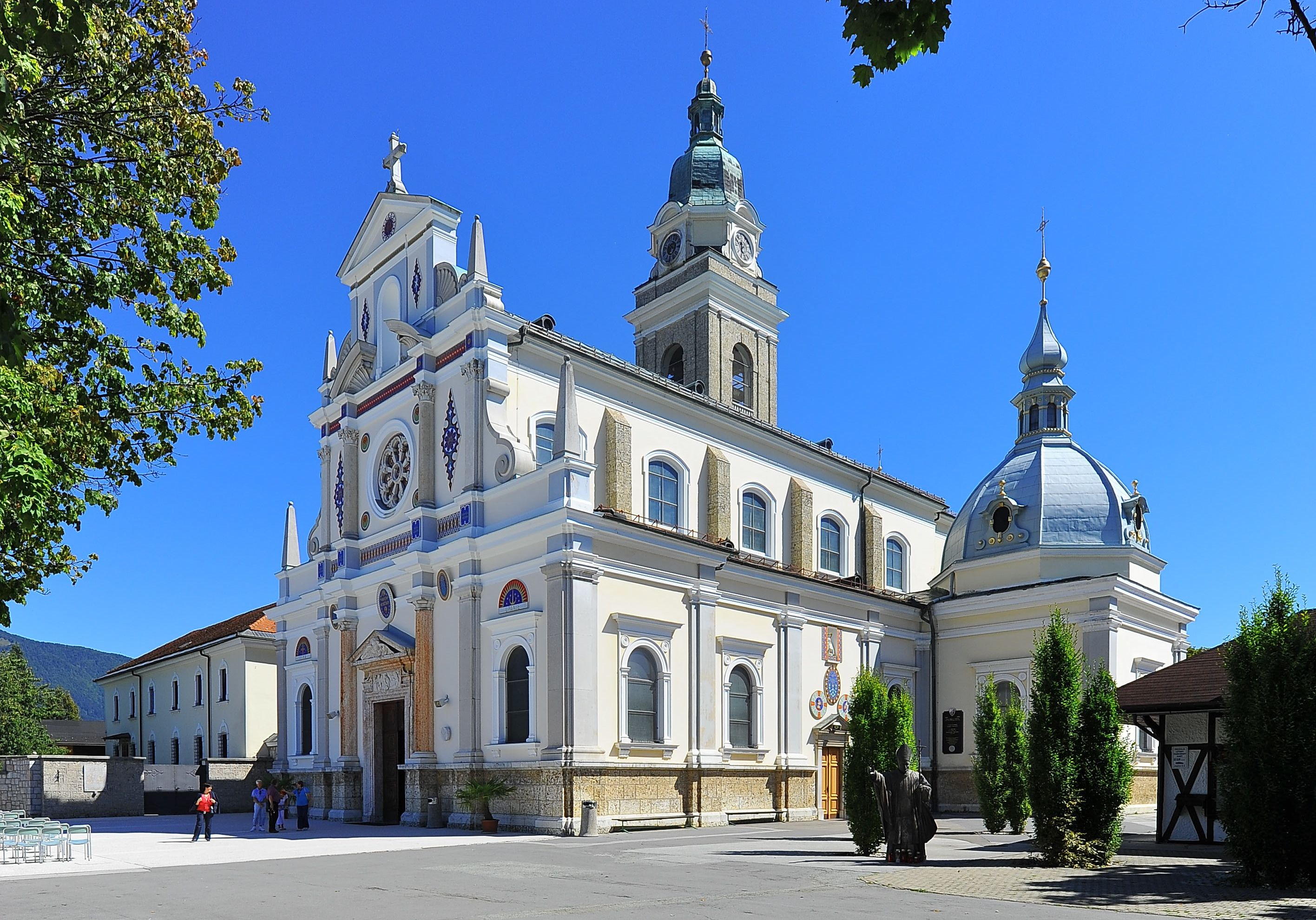 Parish and pilgrimage church Saint Veit in Brezje, municipality Radovljica / Upper Carniola / Slovenia / EU